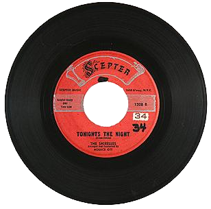 The disc for The Shirelles' first song to chart, "Tonight's the Night"